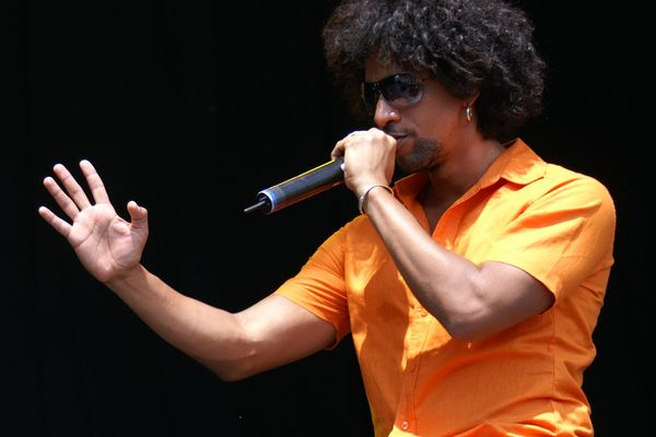 One of the singers of the Cuban band Free Hole Negro. Taken at Festival Mundial, 2006 (Tilburg, The Netherlands.)